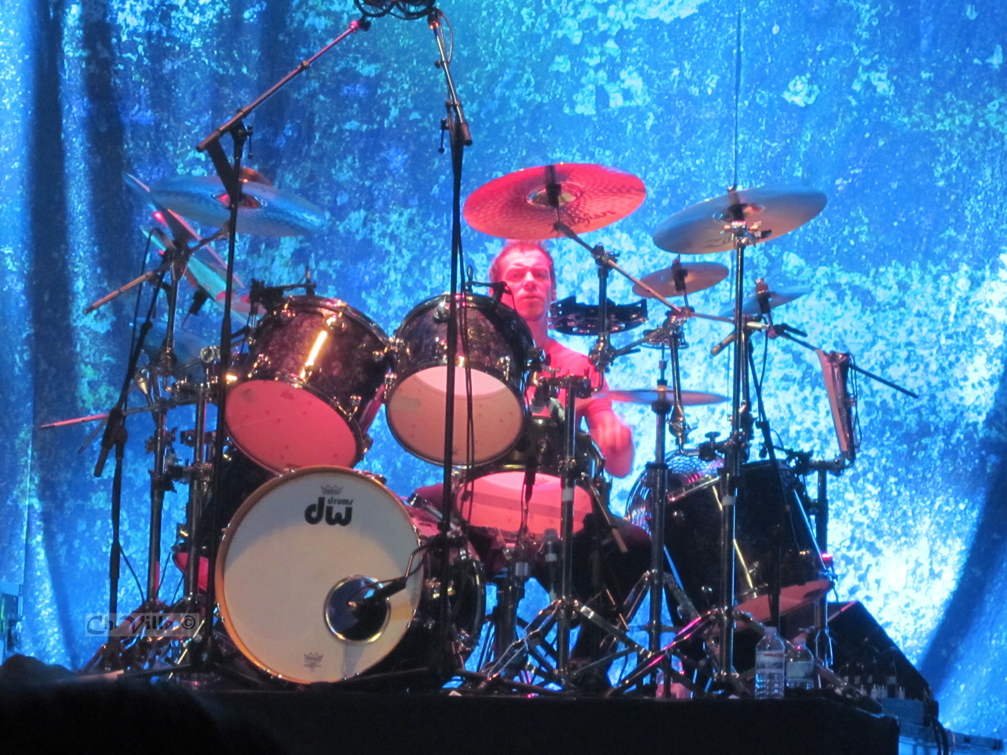 The Cranberries Live @ Montreal6